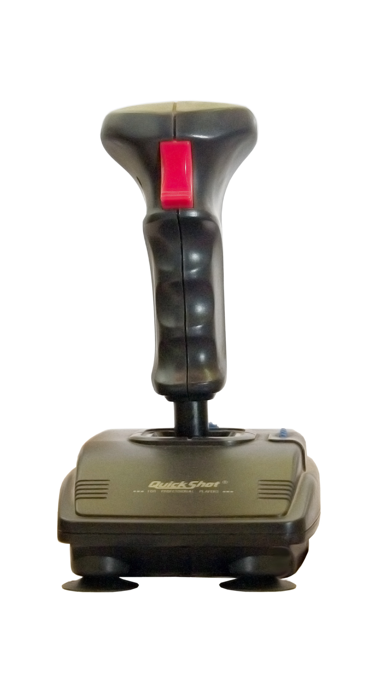 A QuickShot joystick from the 1990's. Picture created October 16 2006.